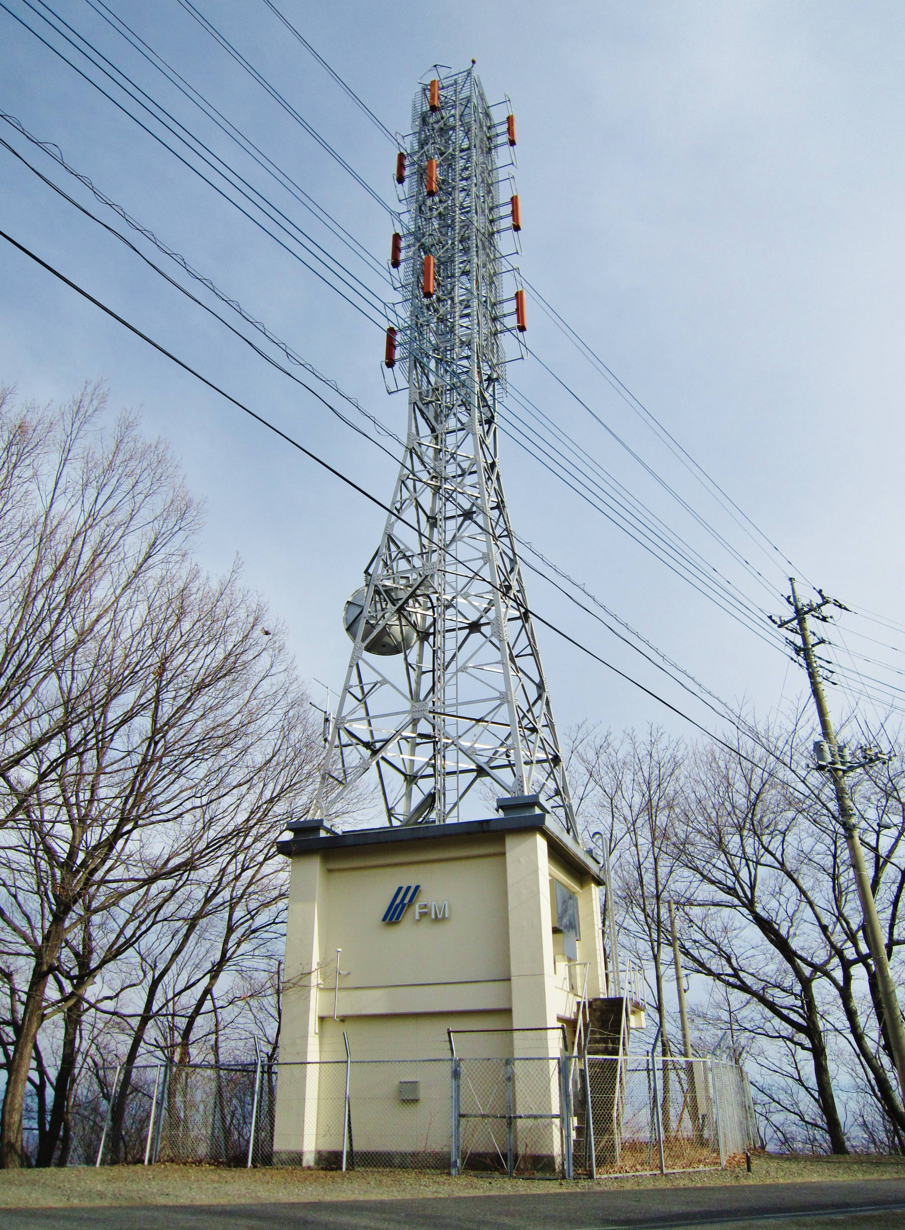 FM Gunma Broadcasting Mount Ushibuse transmitting station. (JORU-FM 86.3MHz 1kW)